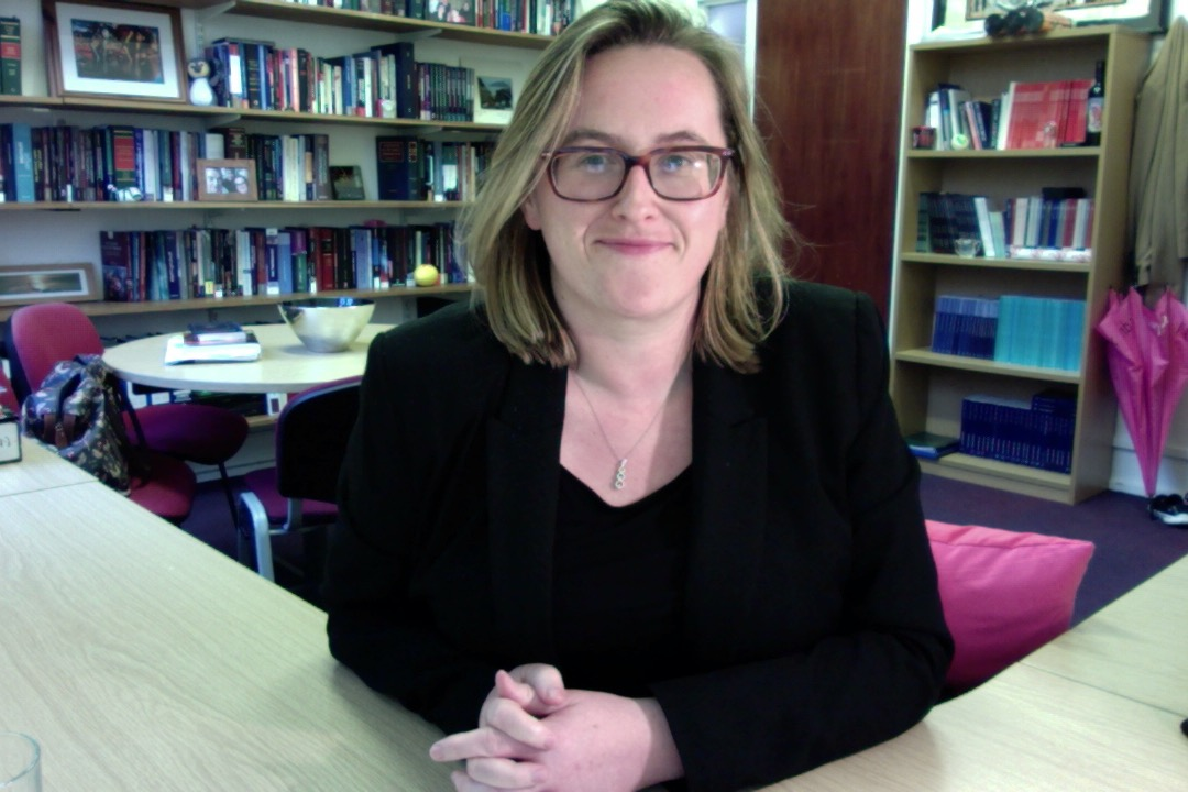 Image of de Londras